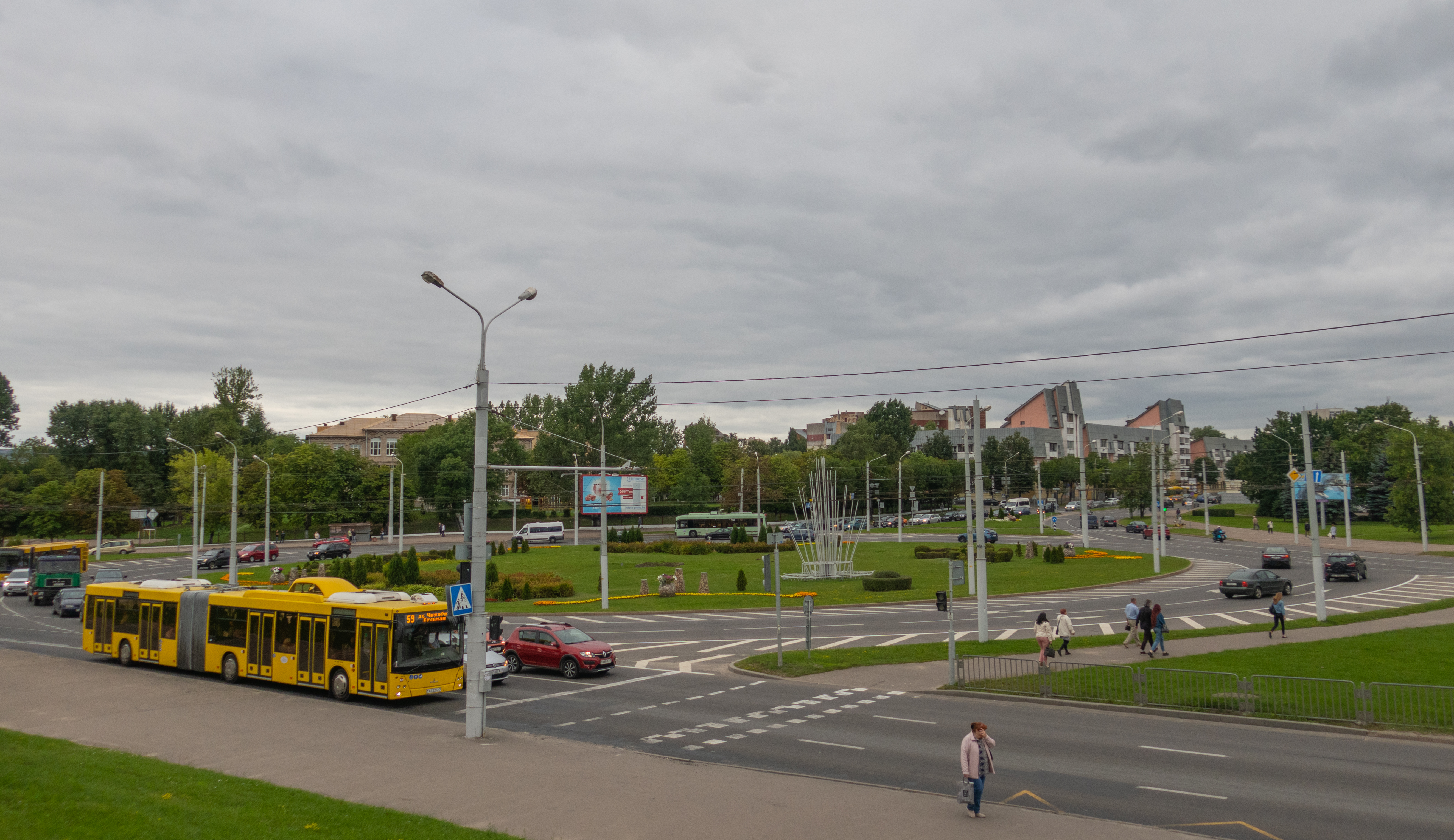 Zaparožskaja square. Minsk, Belarus